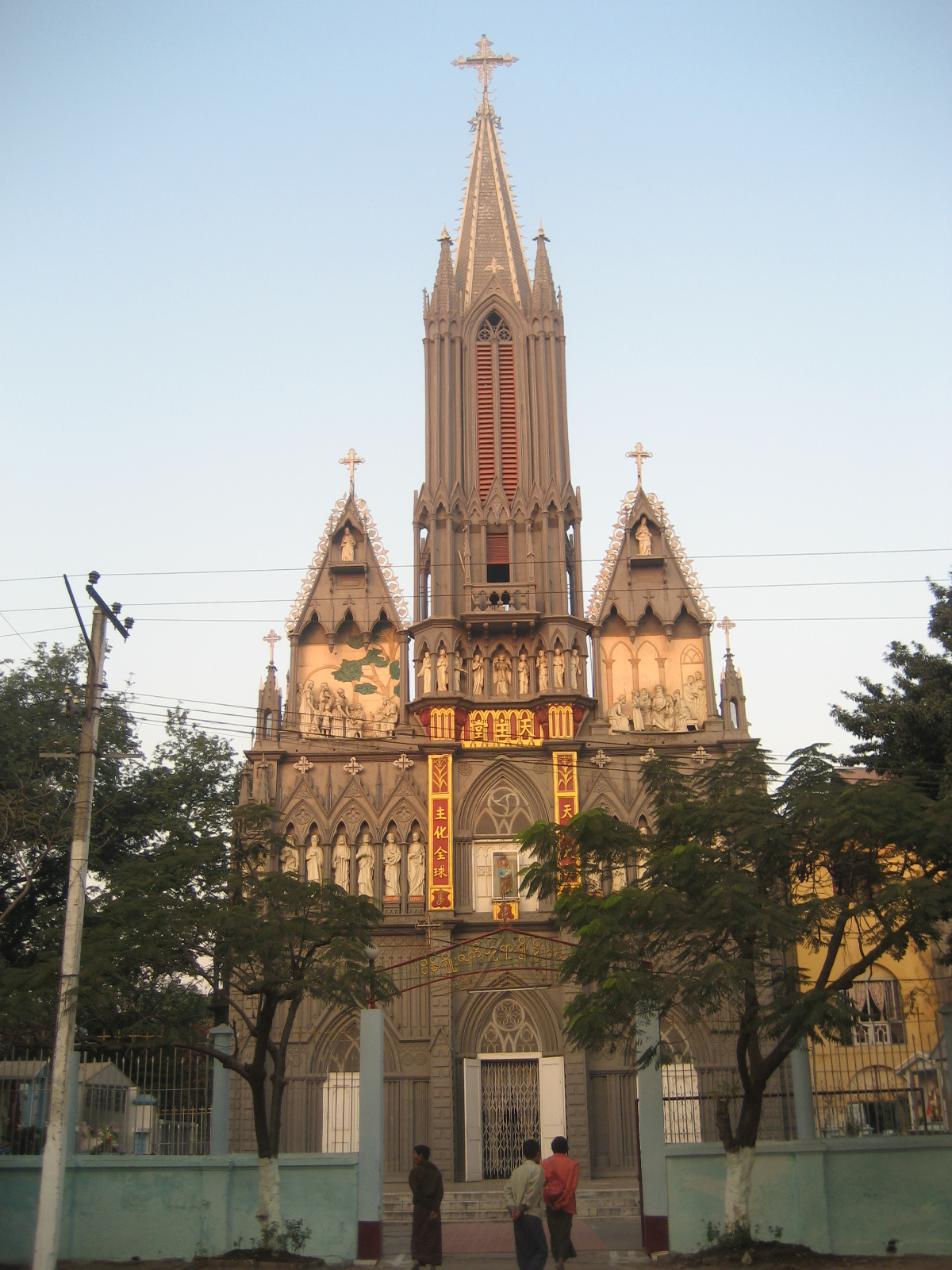 St Joseph's Roman Catholic Church on 80th & 34th, Mandalay, Myanmar.